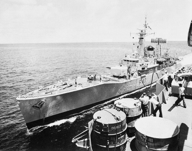 The Royal Navy Leander-class frigate HMS Danae (F47) refueling from the U.S. Navy anti-submarine aircraft carrier USS Kearsarge (CVS-33) during that carrier's deployment to the Western Pacific and Vietnam from 29 March to 4 September 1969.